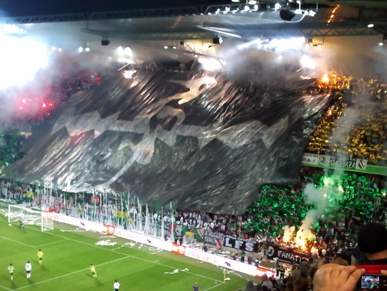 Legia Warschau vs ADO Den Haag